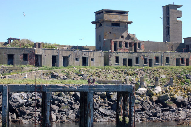 Inchmickery and seabirds With the nesting season underway the Forth was busy with lesser black-backed and herring gulls, kittiwakes, common terns, razorbills, shags, puffins and gannets, of which mainly gulls are visible on the military ruins here.